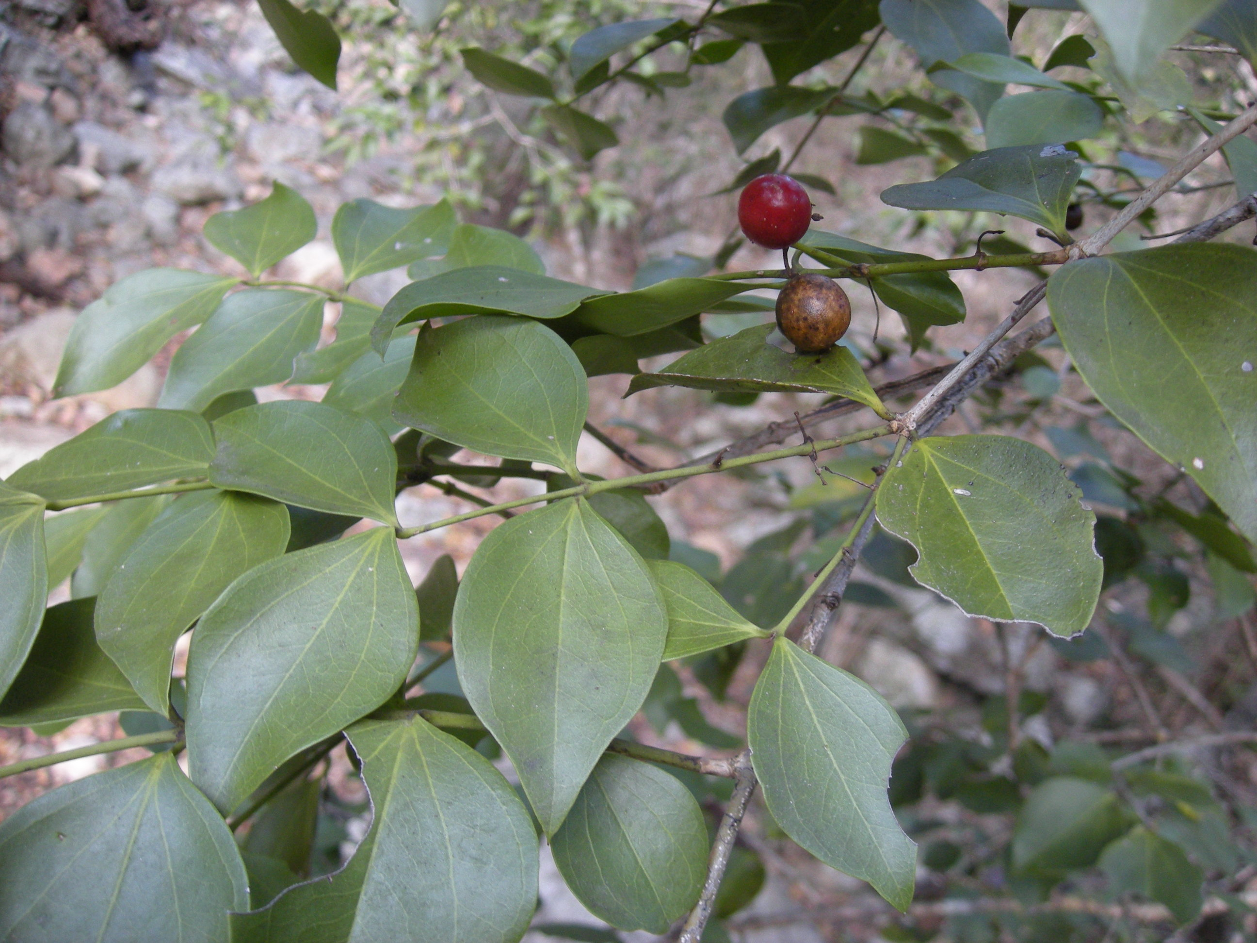 Strychnos psilosperma foliage and fruit, Mount Archer National Park, Rockhampton, Queensland.